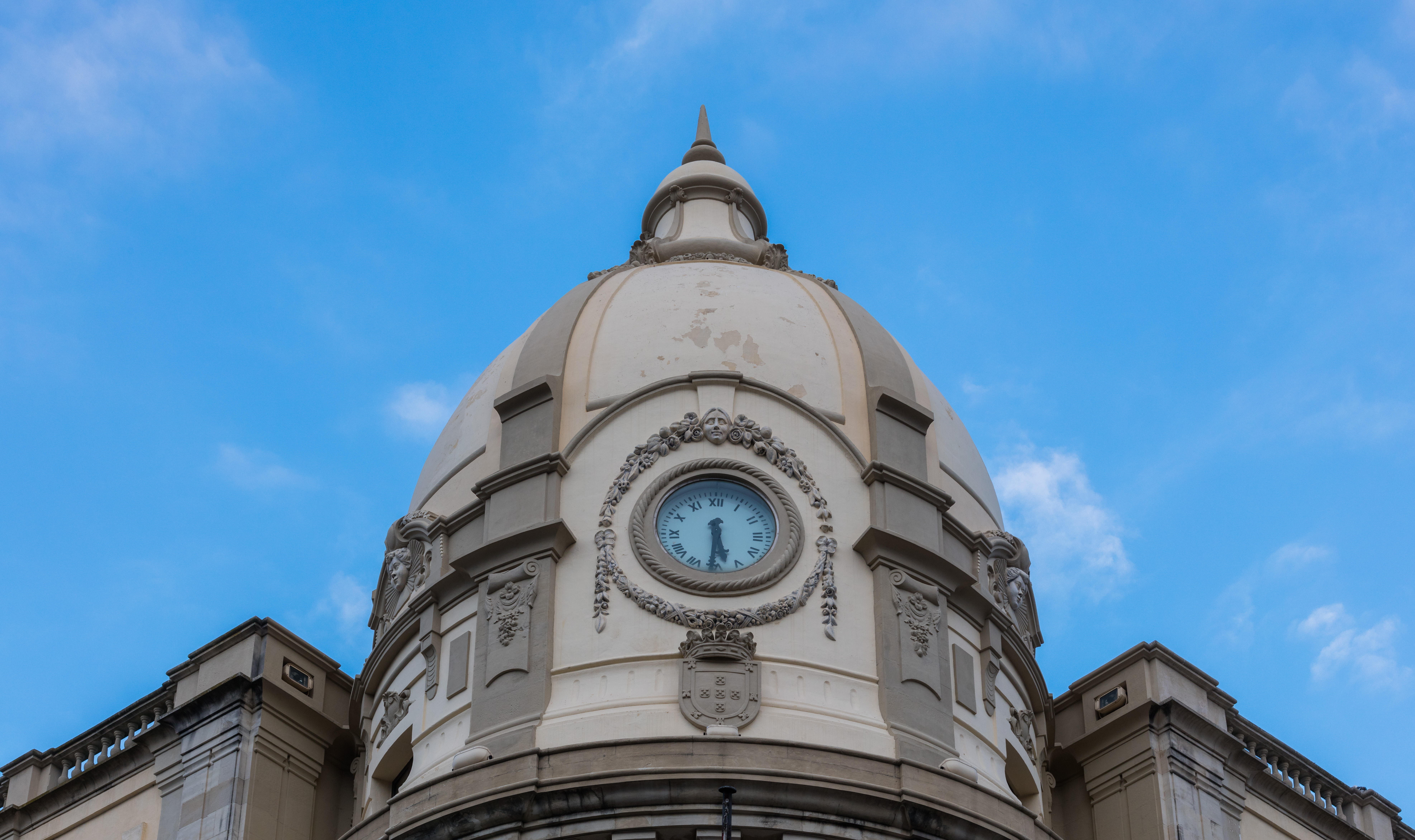 Town hall, Ceuta, Spain